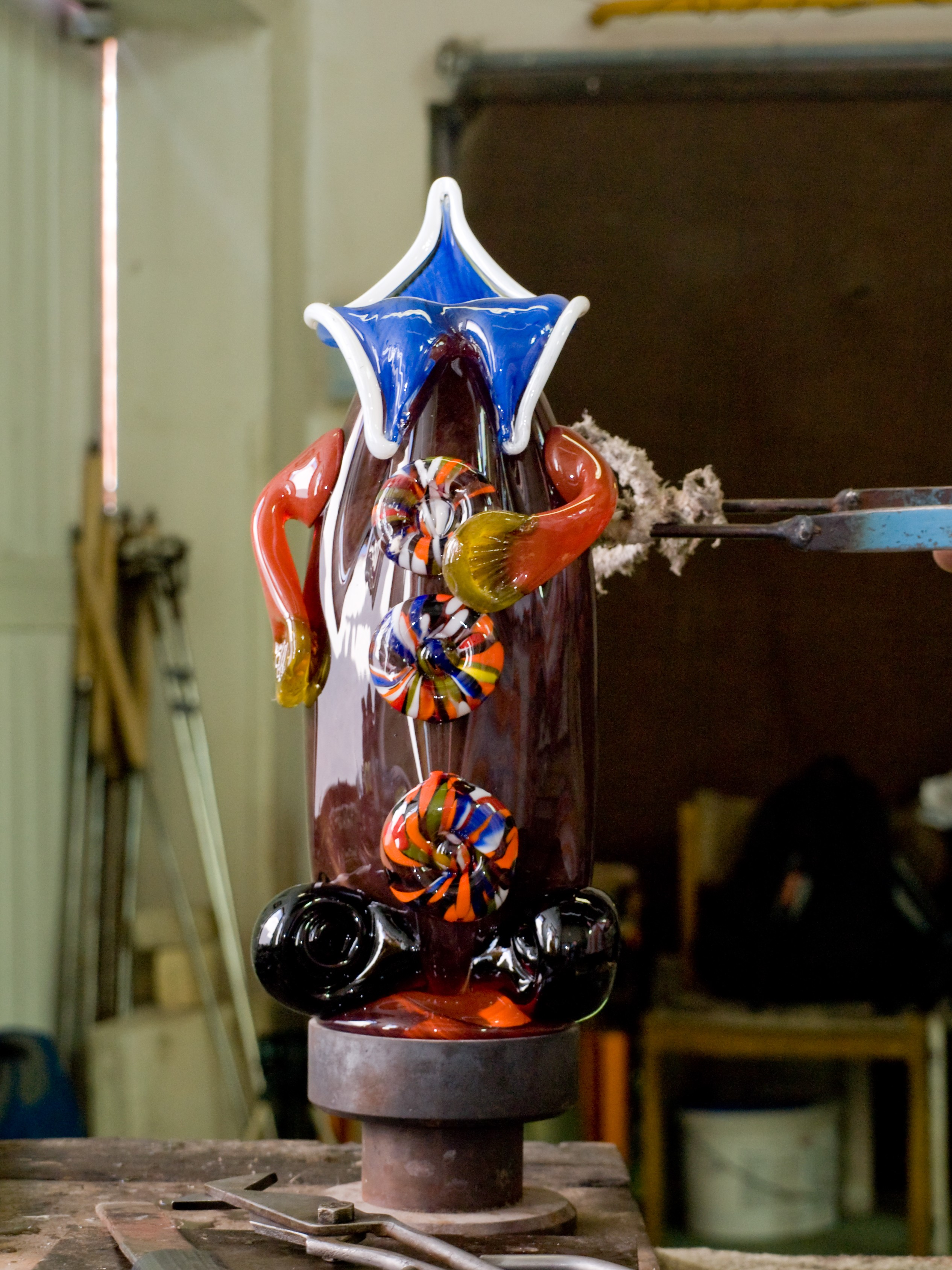 Nenačovice glasswork